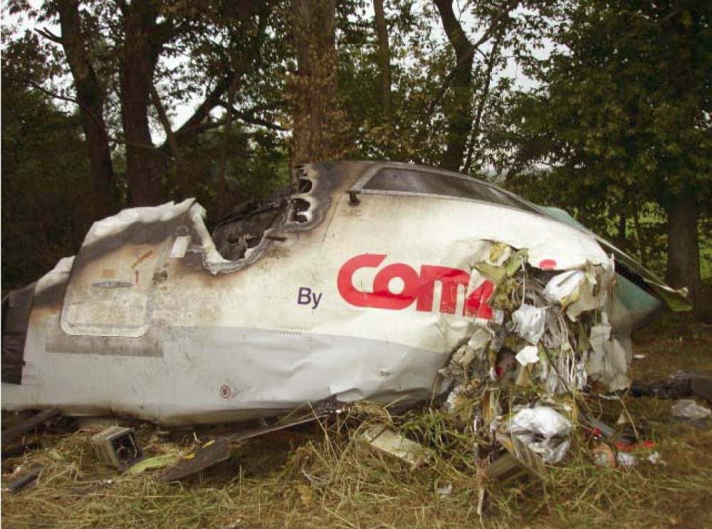 Flight 5191 take off from wrong runway and overrun.